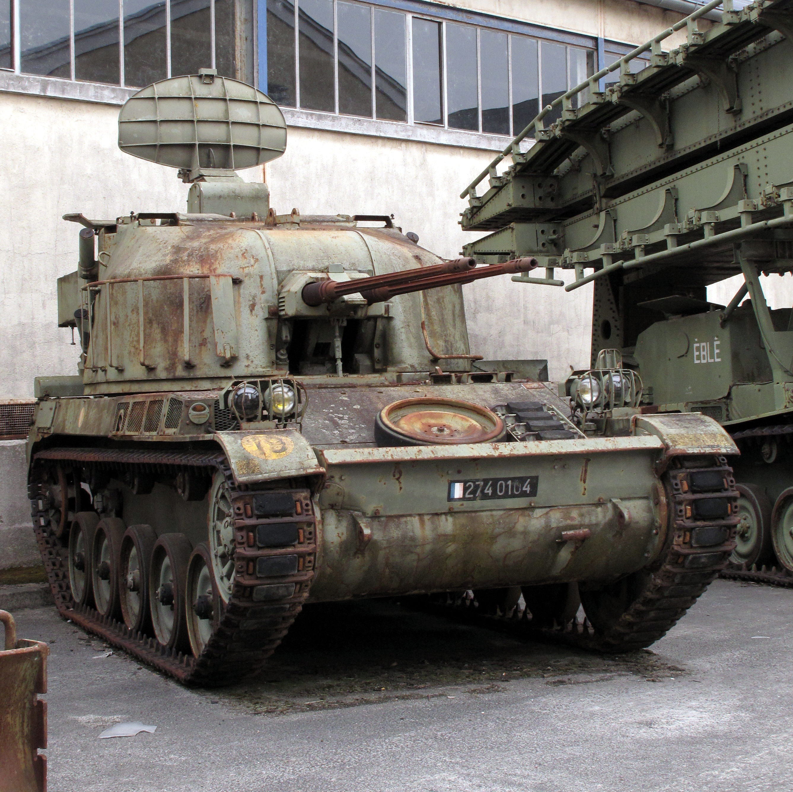 AMX-13 or variant. On display at Saumur Général Estienne museum.